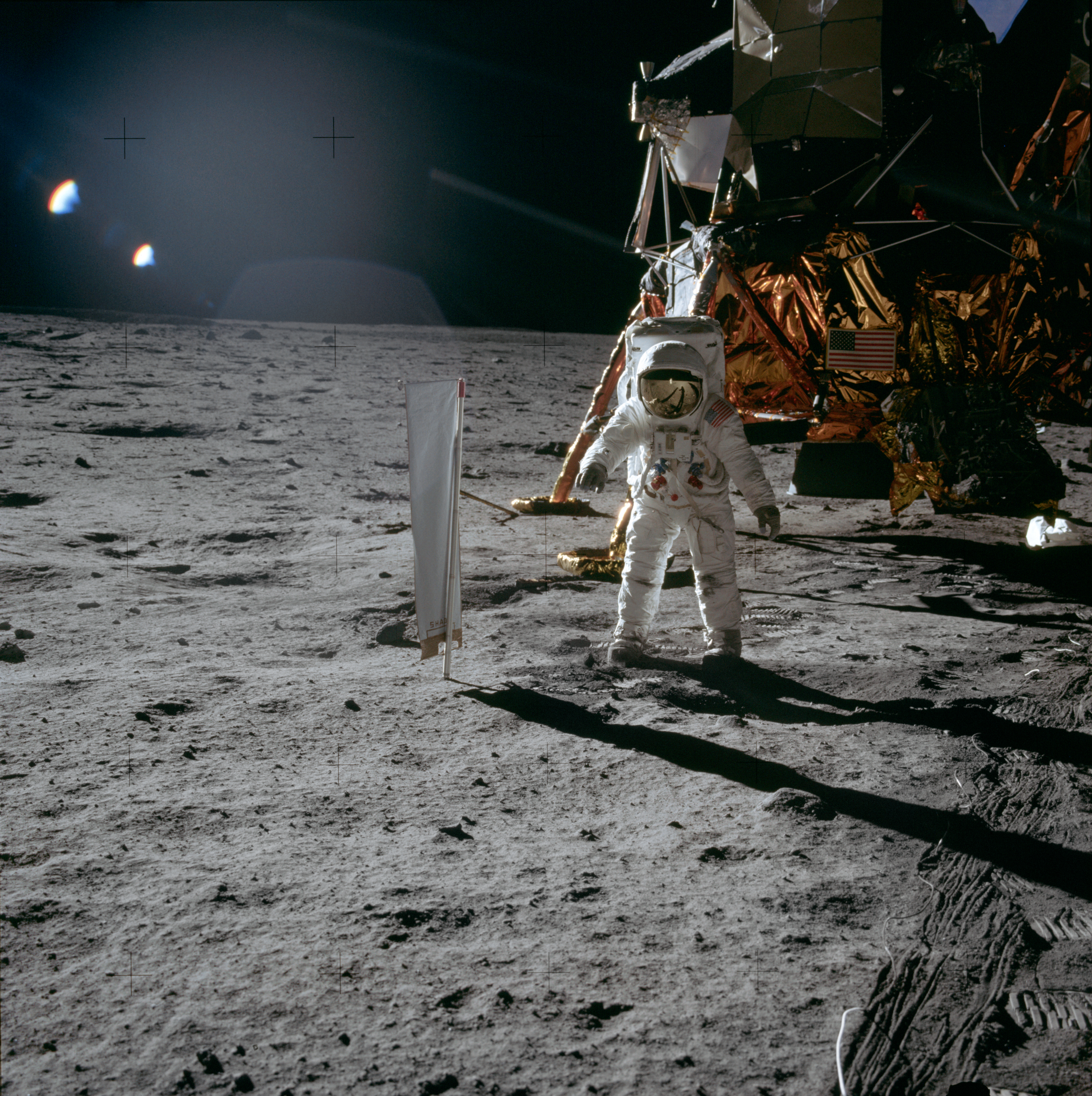 Astronaut Edwin E. Aldrin, Jr., Lunar Module pilot, is photographed during the Apollo 11 extravehicular activity (EVA) on the lunar surface. In the right background is the Lunar Module "Eagle". On Aldrin's right is the Solar Wind Composition (SWC) experiment already deployed. This photograph was taken by Neil A. Armstrong with a 70mm lunar surface camera.